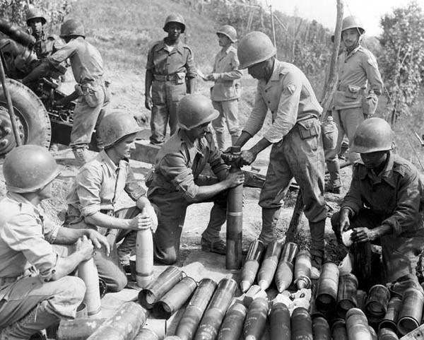 Brazilian Artillery on Gothic Line, Sep. 1944